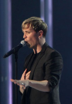 Kian Egan at The Nobel Peace Price Concert 2009